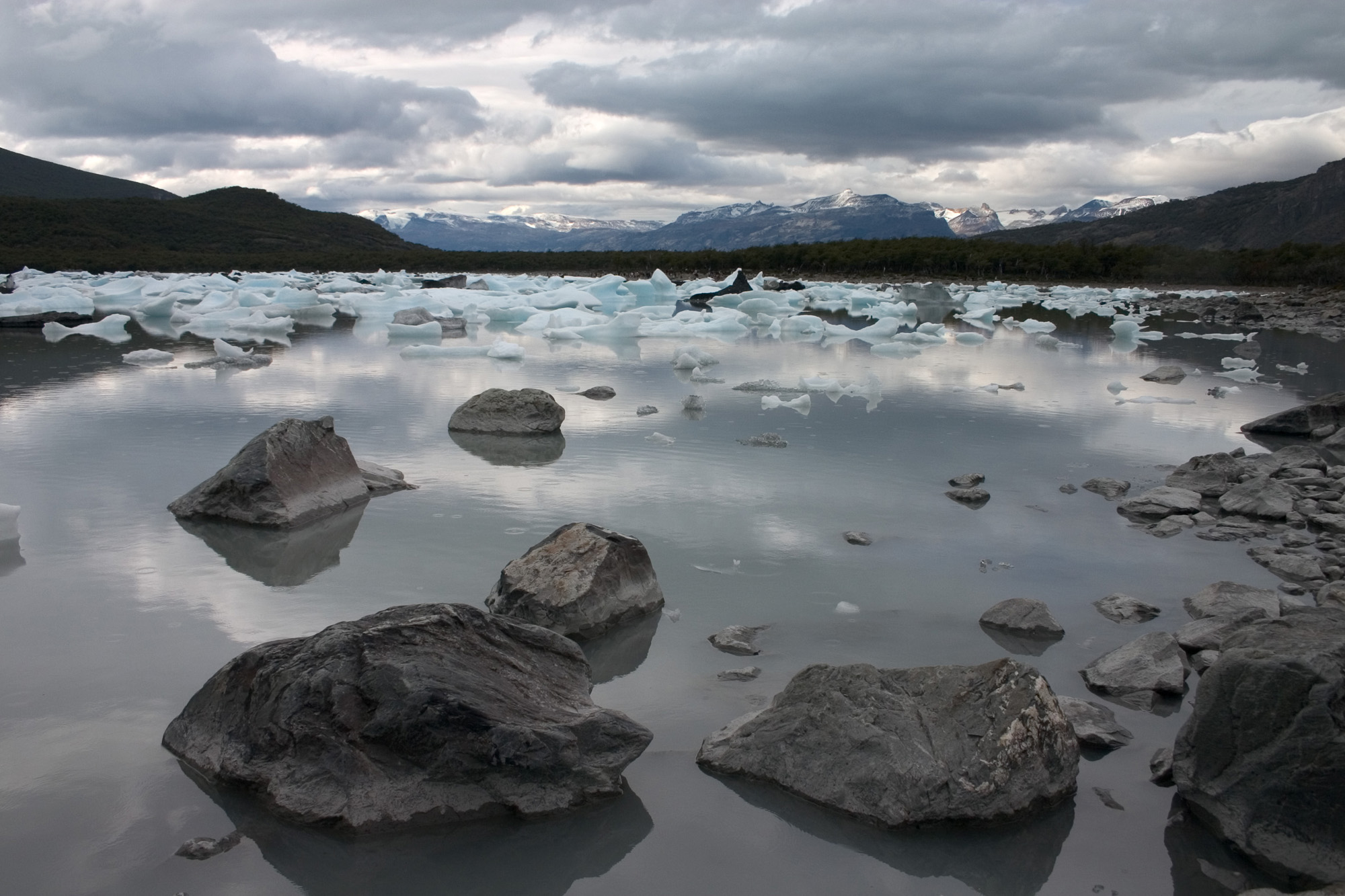 Onelli Bay, Los Glaciares national park, Patagonia, Argentina.